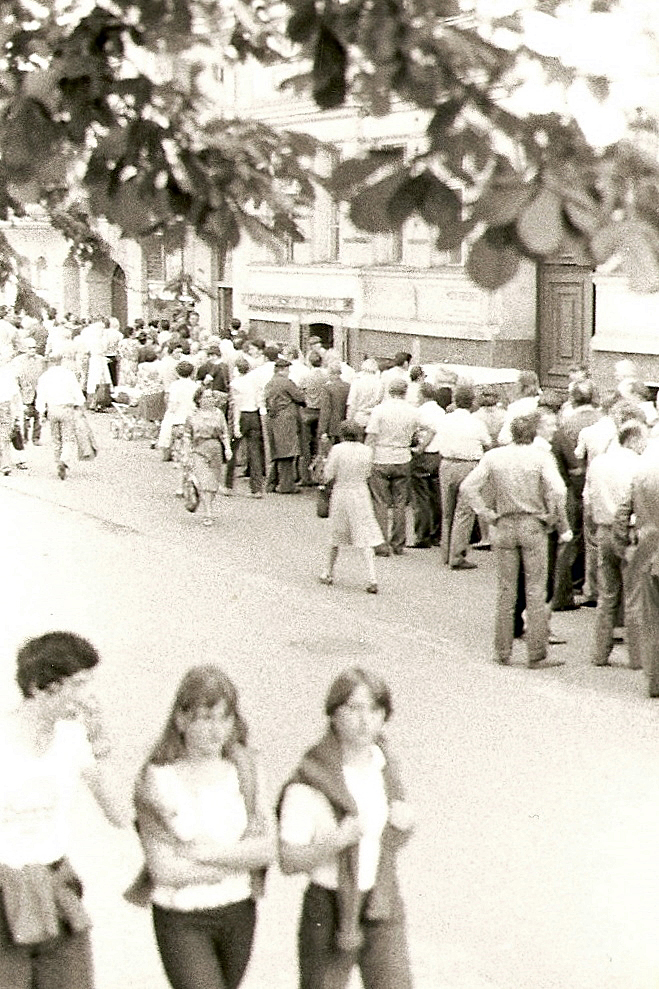 Queue to a shop in Warsaw, Poland 1981